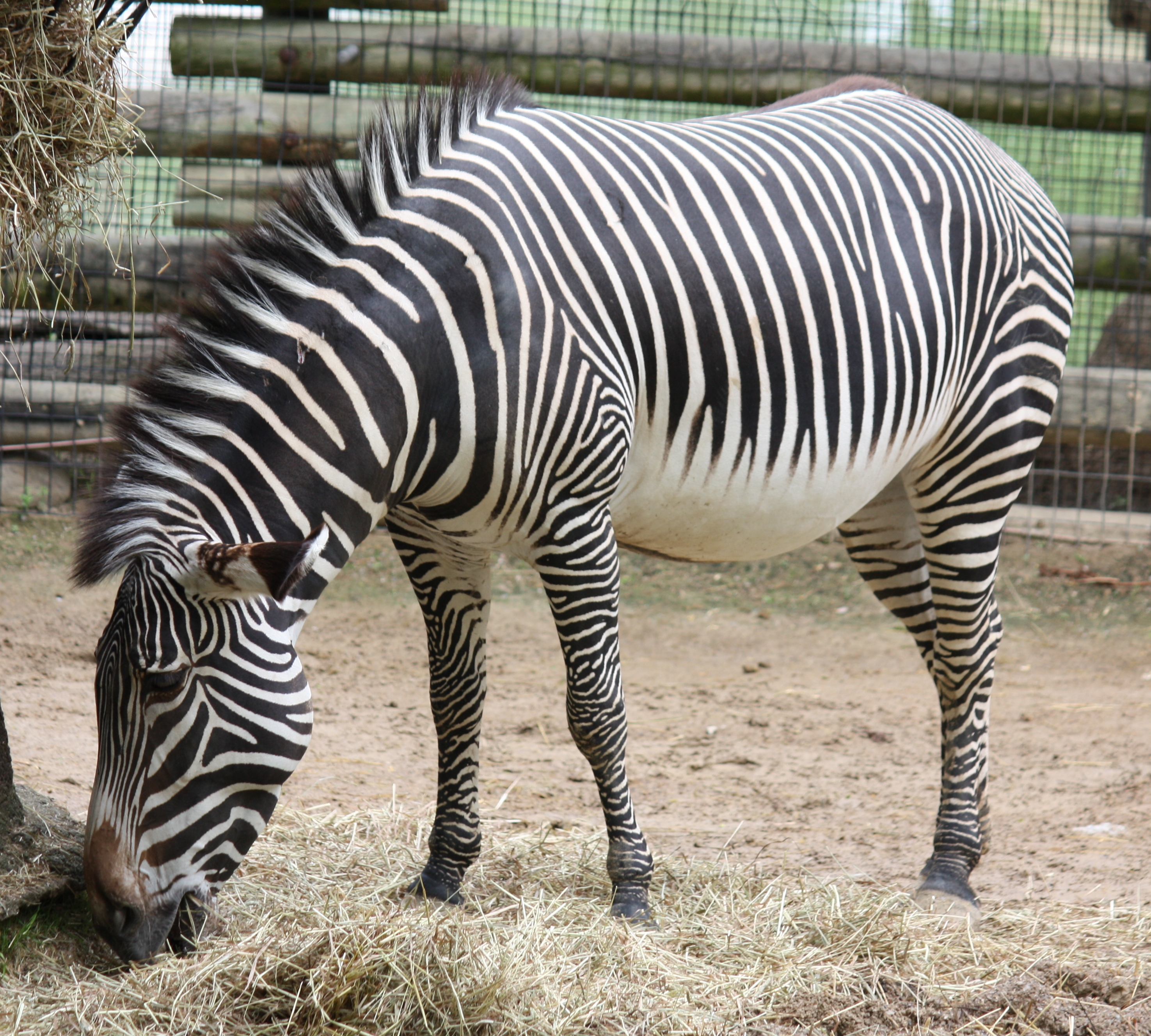 Grevy's Zebra Equus grevyi at Cincinnati Zoo